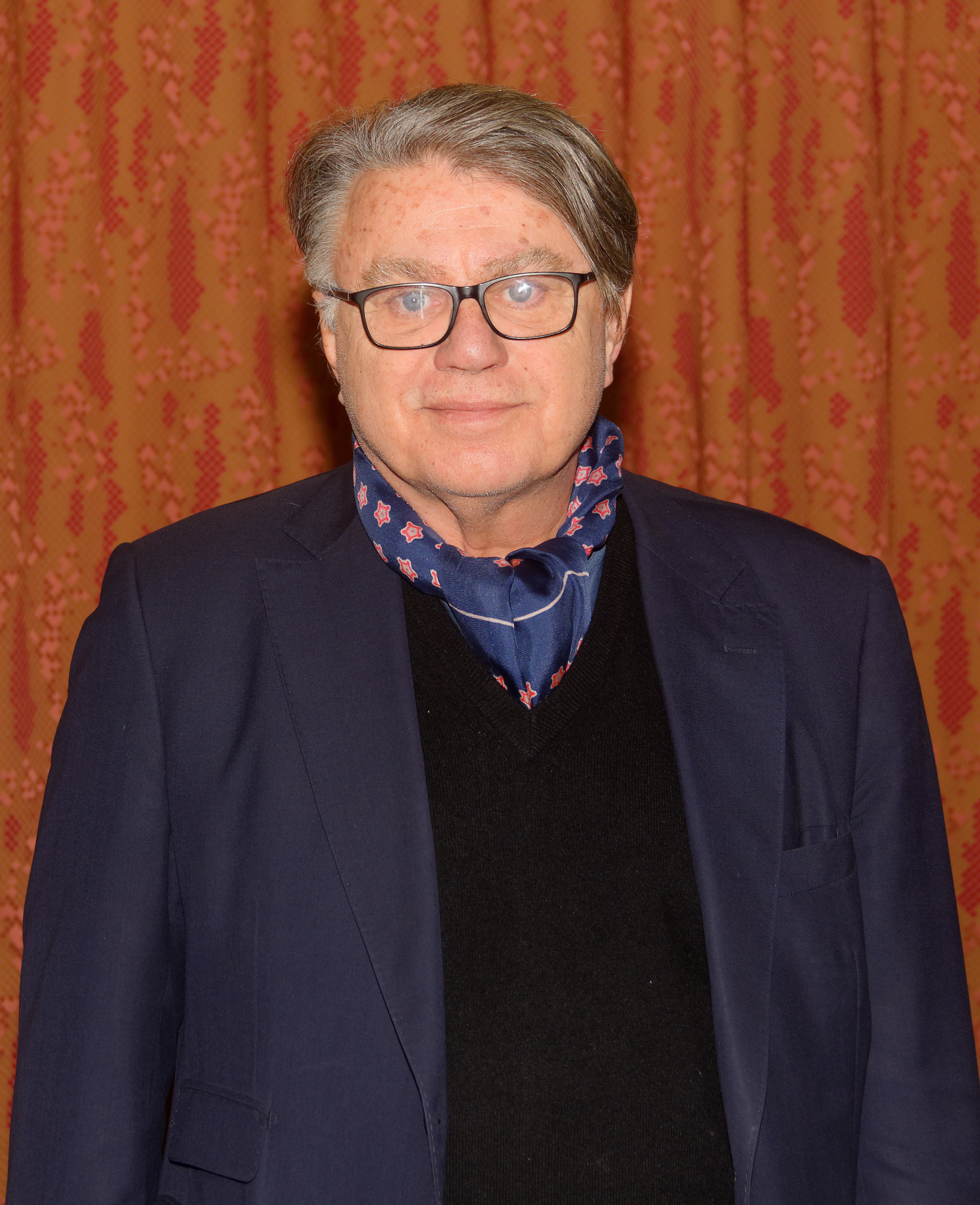 Personality rights warningAlthough this work is freely licensed or in the public domain, the person(s) shown may have rights that legally restrict certain re-uses unless those depicted consent to such uses. In these cases, a model release or other evidence of consent could protect you from infringement claims.